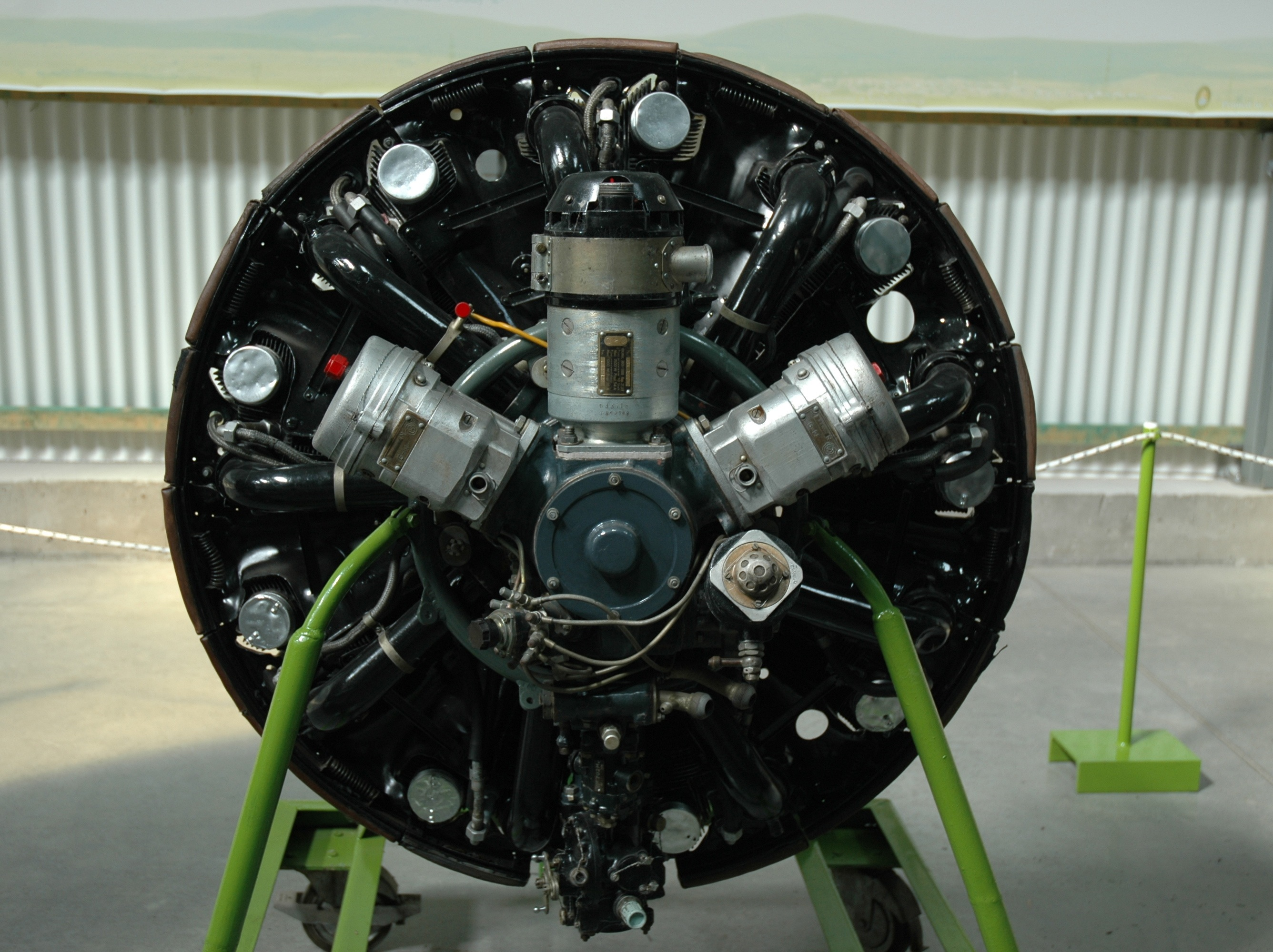 Ivchenko AI-14R Soviet radial piston engine (displayed at the Hungarian Aviation Museum in Szolnok)